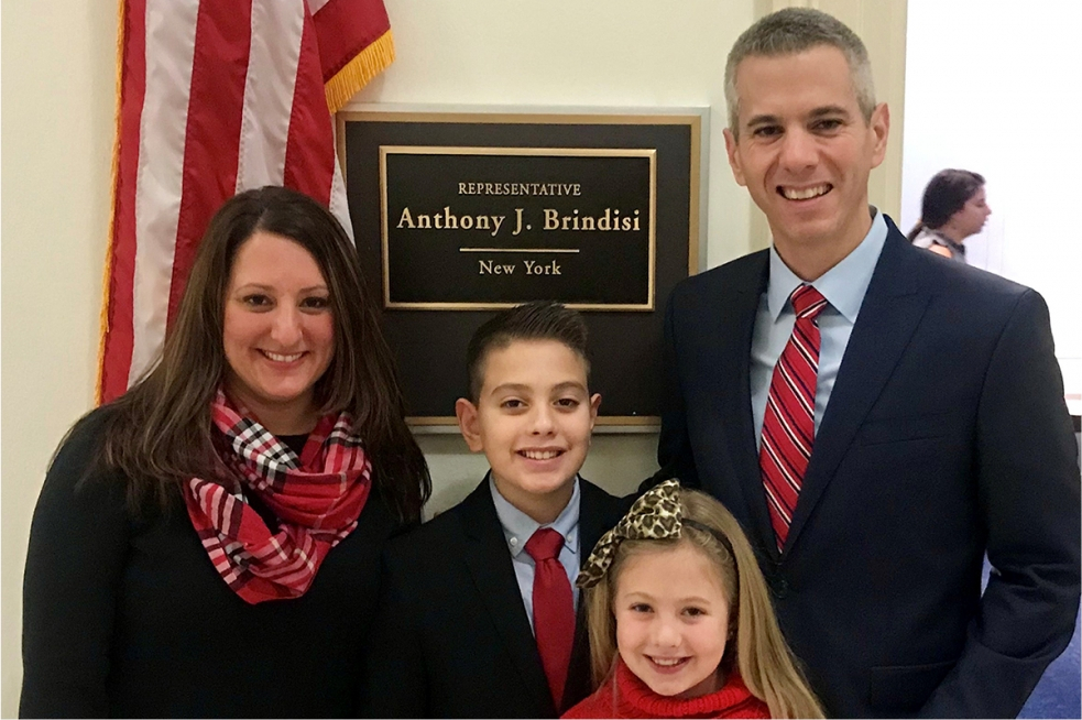 Anthony Brindisi with family during his swearing in ceremony